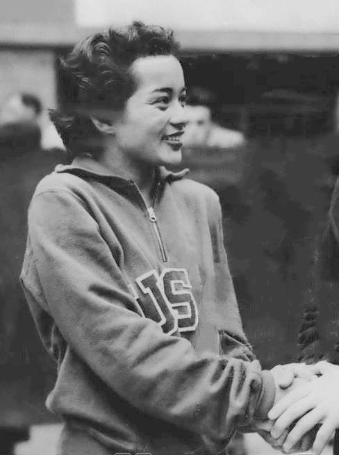 1948 Press Photo Bruce Harlan (R), O. State, U. member of the U.S. Men's Olympic